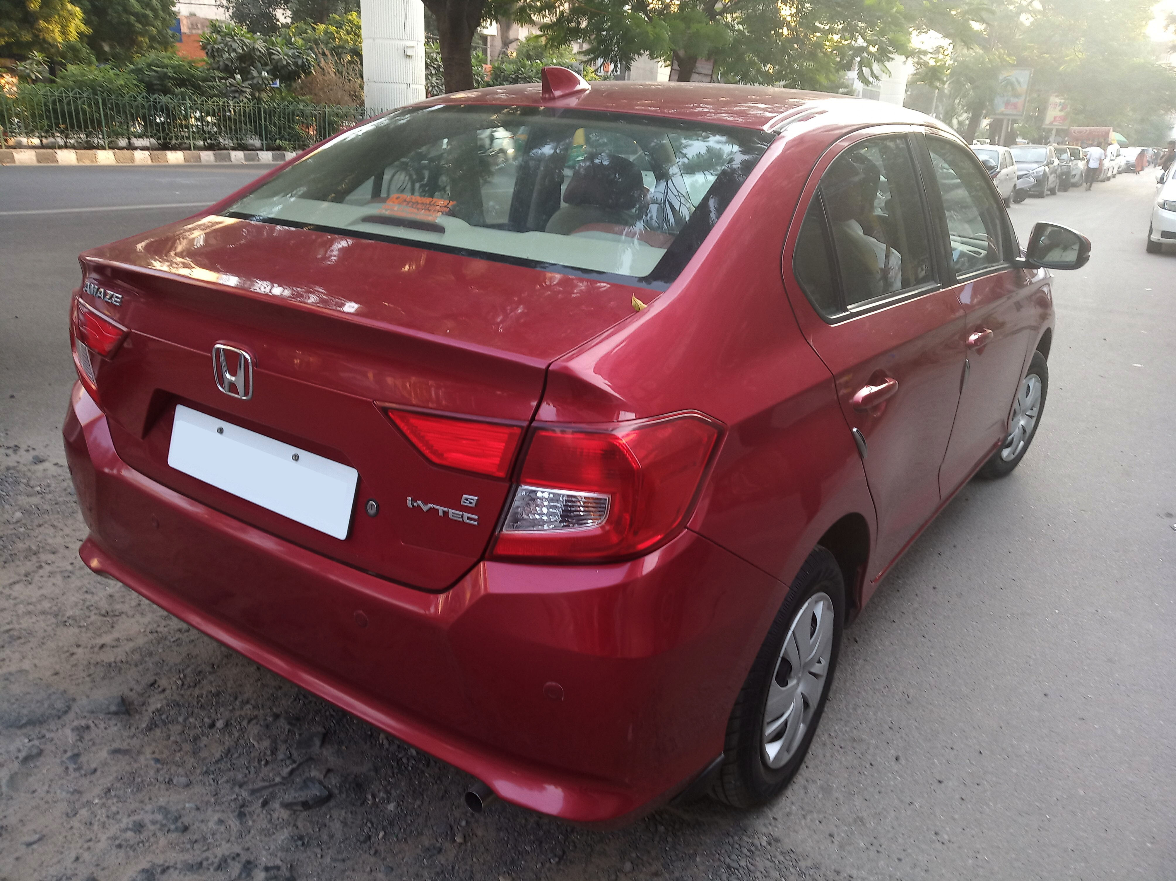 Honda Amaze 2018 (rear) in Uttar Pradesh